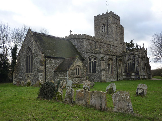 Church at Preston St Mary The cloudy conditions seemed to suit the picture of this somehow serious looking church, at least from the outside.